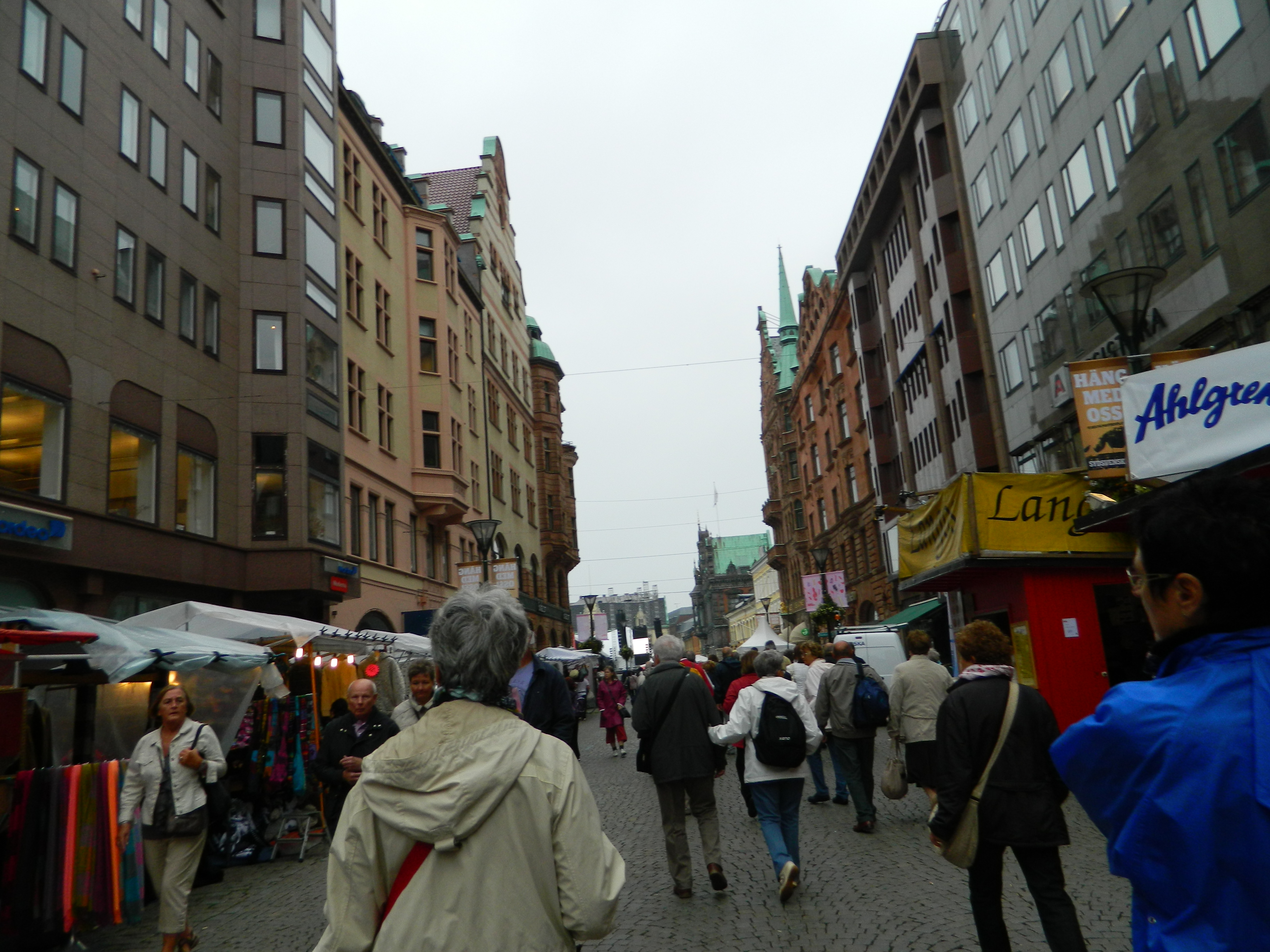 Malmö